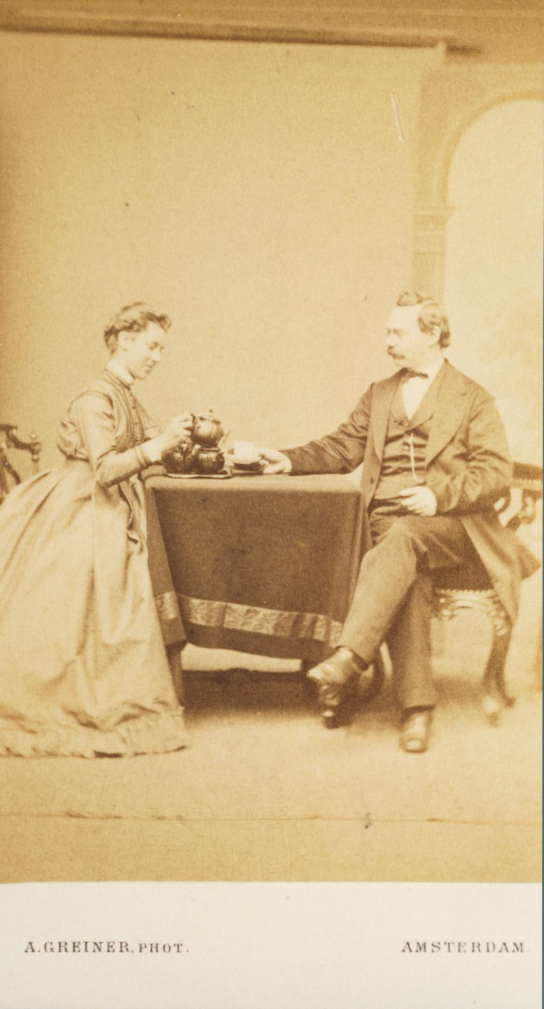 photo 19th century by an Amsterdam photograph of T.G.A. Slingeland and A. Colsman Steenberg in family archives Hoek (archive nr 3161) at the Gelders Archief